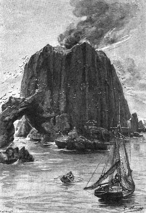 An illustration from Jules Verne's novel "Facing the Flag" (or "For the Flag").